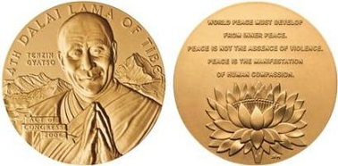 Congressional Gold Medal awarded to Tenzin Gyatso. Back of coin says: “WORLD PEACE MUST DEVELOP FROM INNER PEACE. PEACE IS NOT THE ABSENCE OF VIOLENCE. PEACE IS THE MANIFESTATION OF HUMAN COMPASSION.”